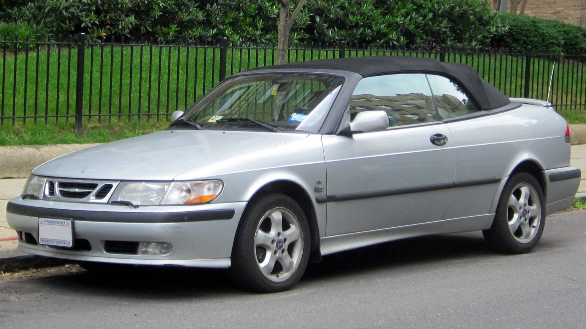 Saab 9-3 photographed in Washington, D.C., USA.